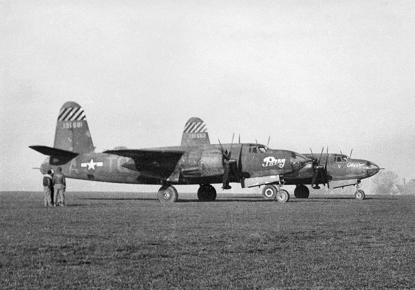 Fog-bound B-26 Marauders (TQ-A, serial number 41-31681) nicknamed "Patsy" and (serial number 41-31662) nicknamed "Old Crow" of the 387th Bomb Group at Debden, January 1944. Handwritten caption on reverse: 'Debden, fog-bound B-26 Sqdn. Jan 44. Source - Glesner Weckbacher.'